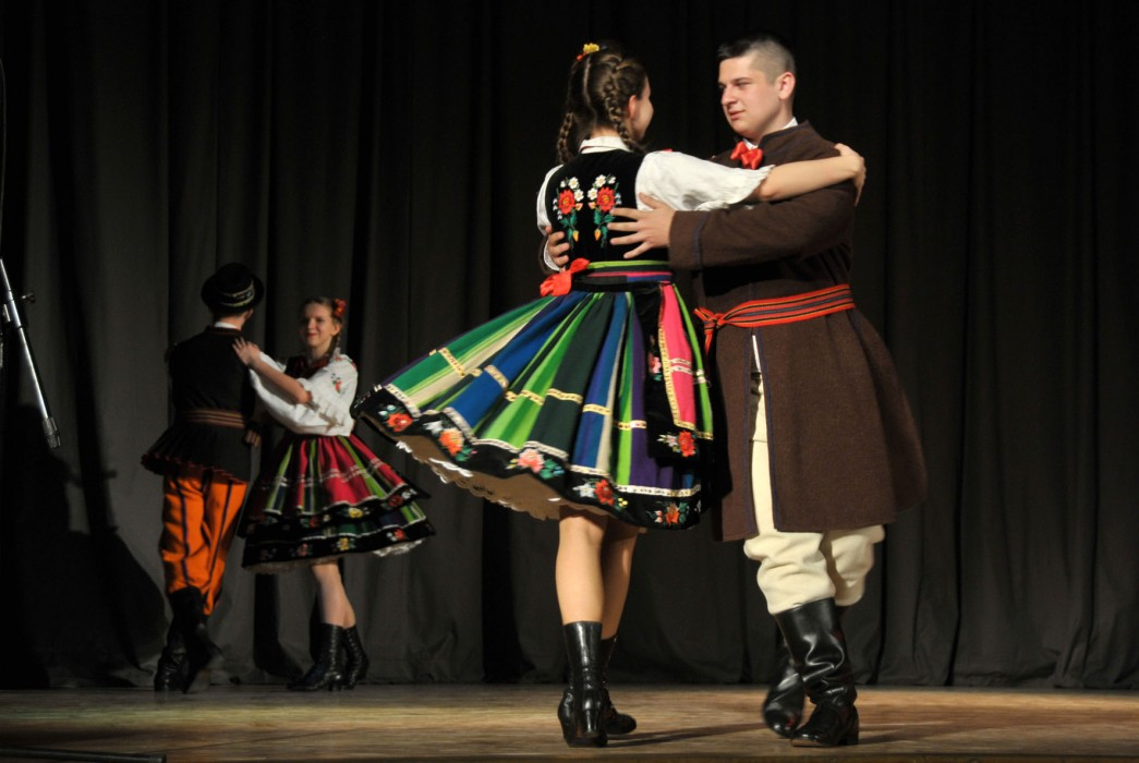 Taniec łowicki